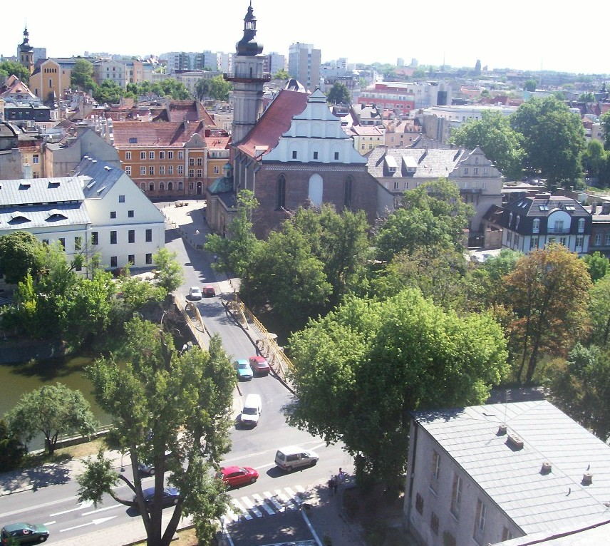 The view of "Yellow-Bridge" in Opole, Poland